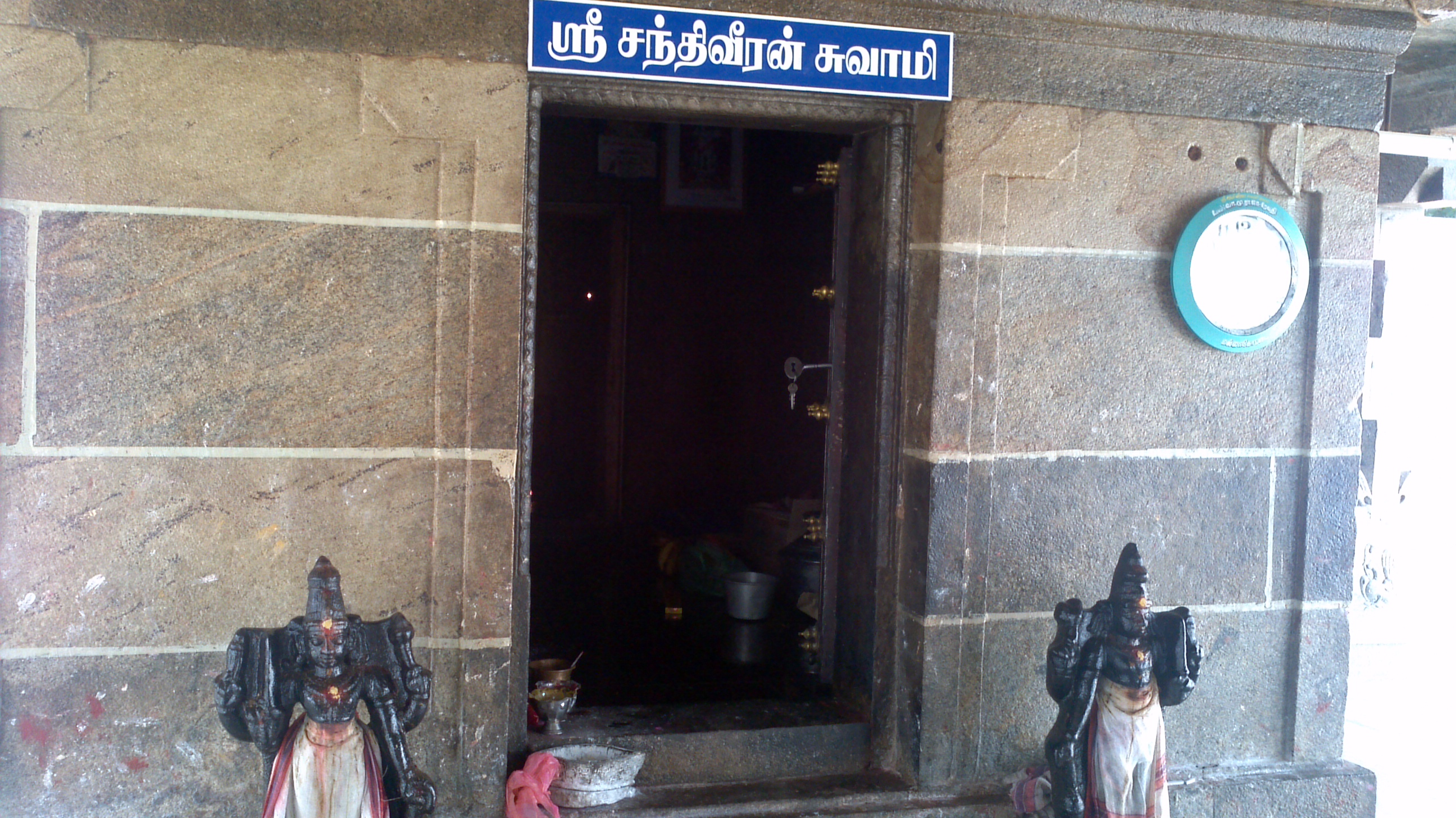 This picture is the inside view of the "Santhiveeran" temple, where the main statue is located in the center of the temple.